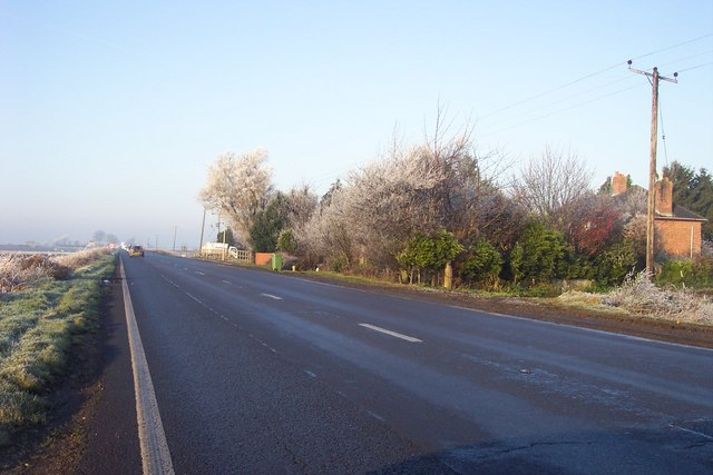 A47 west of Guyhirn